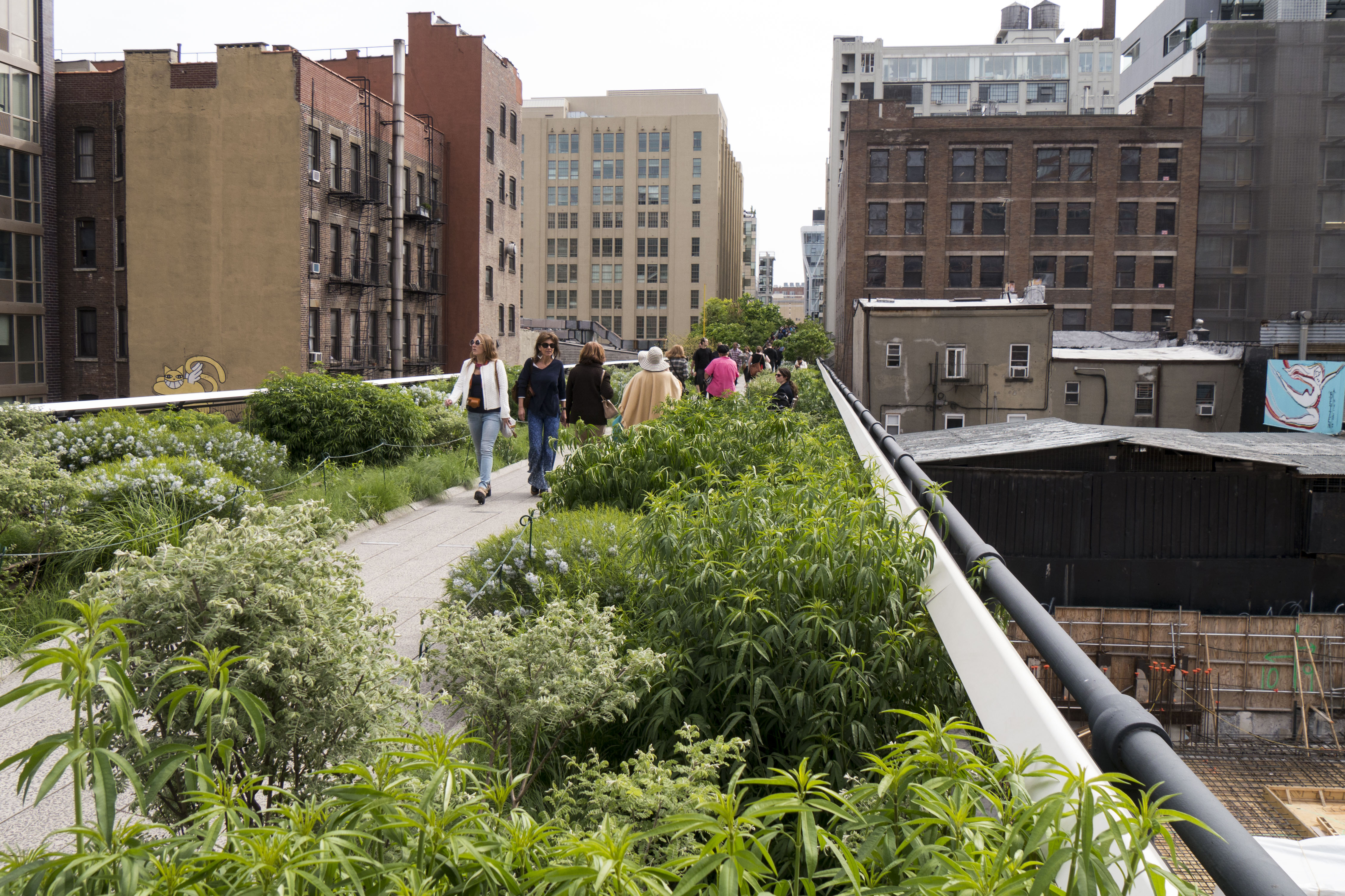 New York May 2015